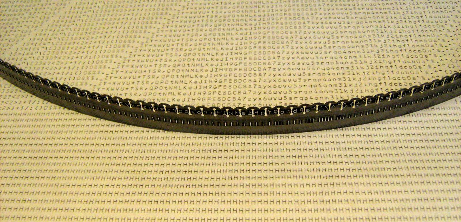 Printer band (from Data Products B600) on a background of printing test patterns